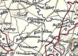 Extract from map, centred on Kilcullen and Kilcullen Bridge, 1838